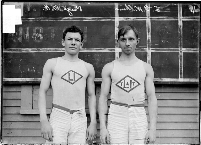 Athletes O. H. Paige and Louis Wilkins Chicago Daily News negatives collection, SDN-002330. Courtesy of the Chicago Historical Society. Taken in 1904 (